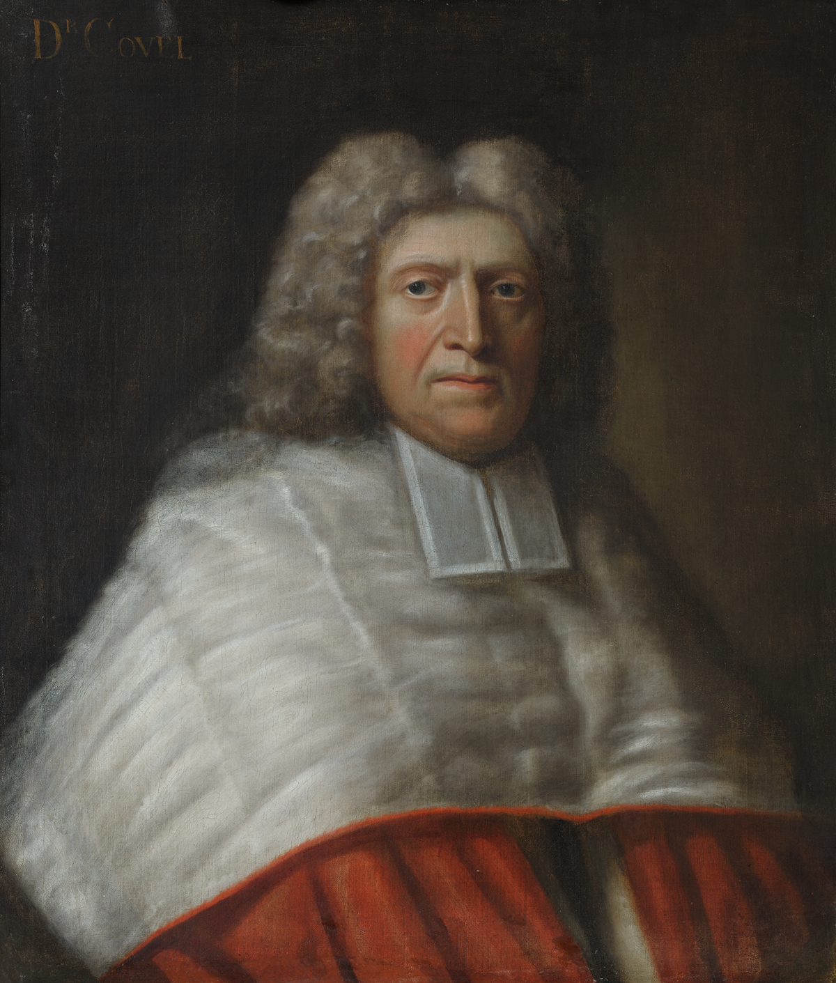 Portrait of John Covel (1638-1722), Amateur Botanist, Architect and Collector, Vice-Chancellor of the University